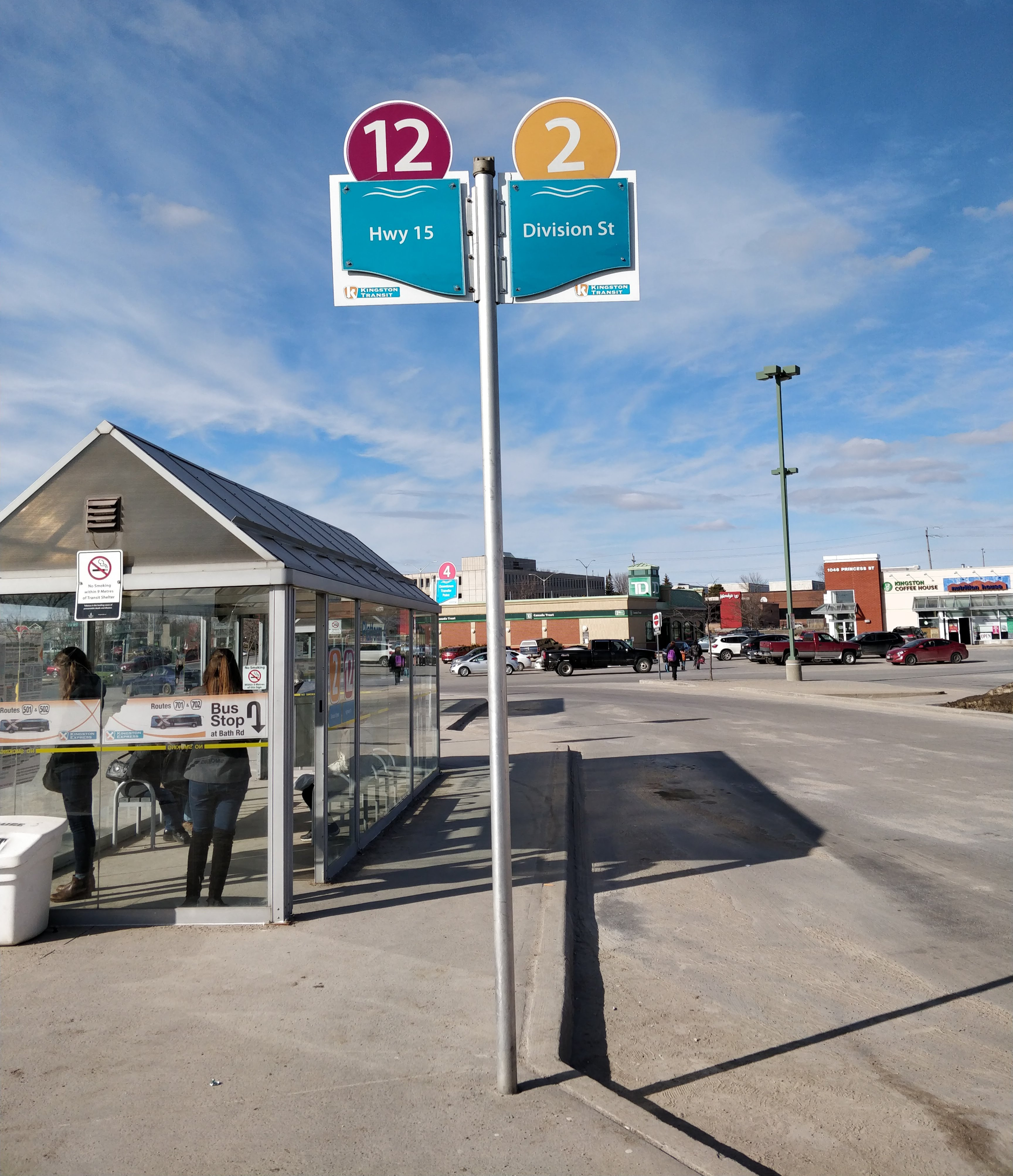 Kingston Centre Transfer Point, platform 4 sign and shelter